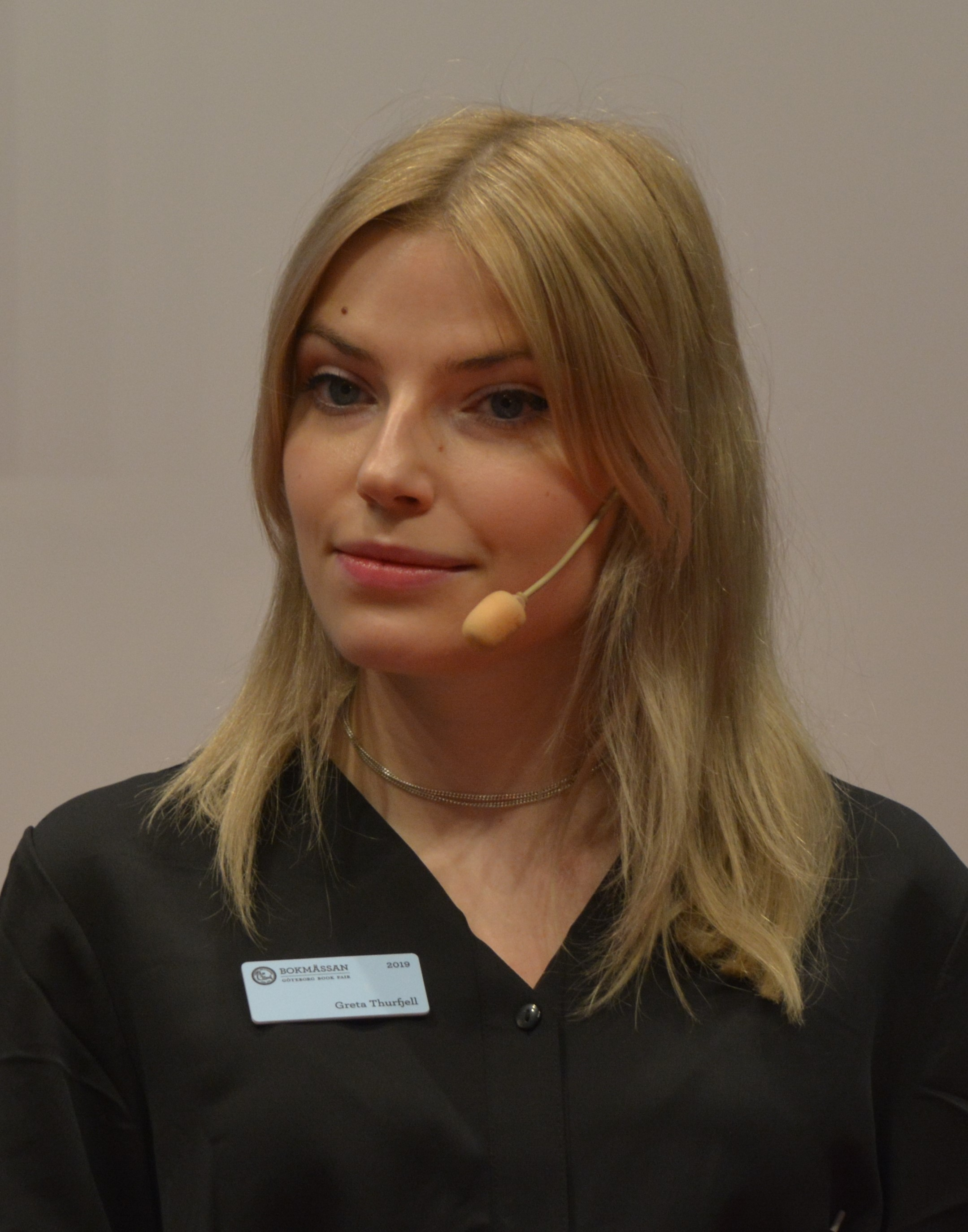 Greta Thurfjell at Göteborg Book Fair 2019